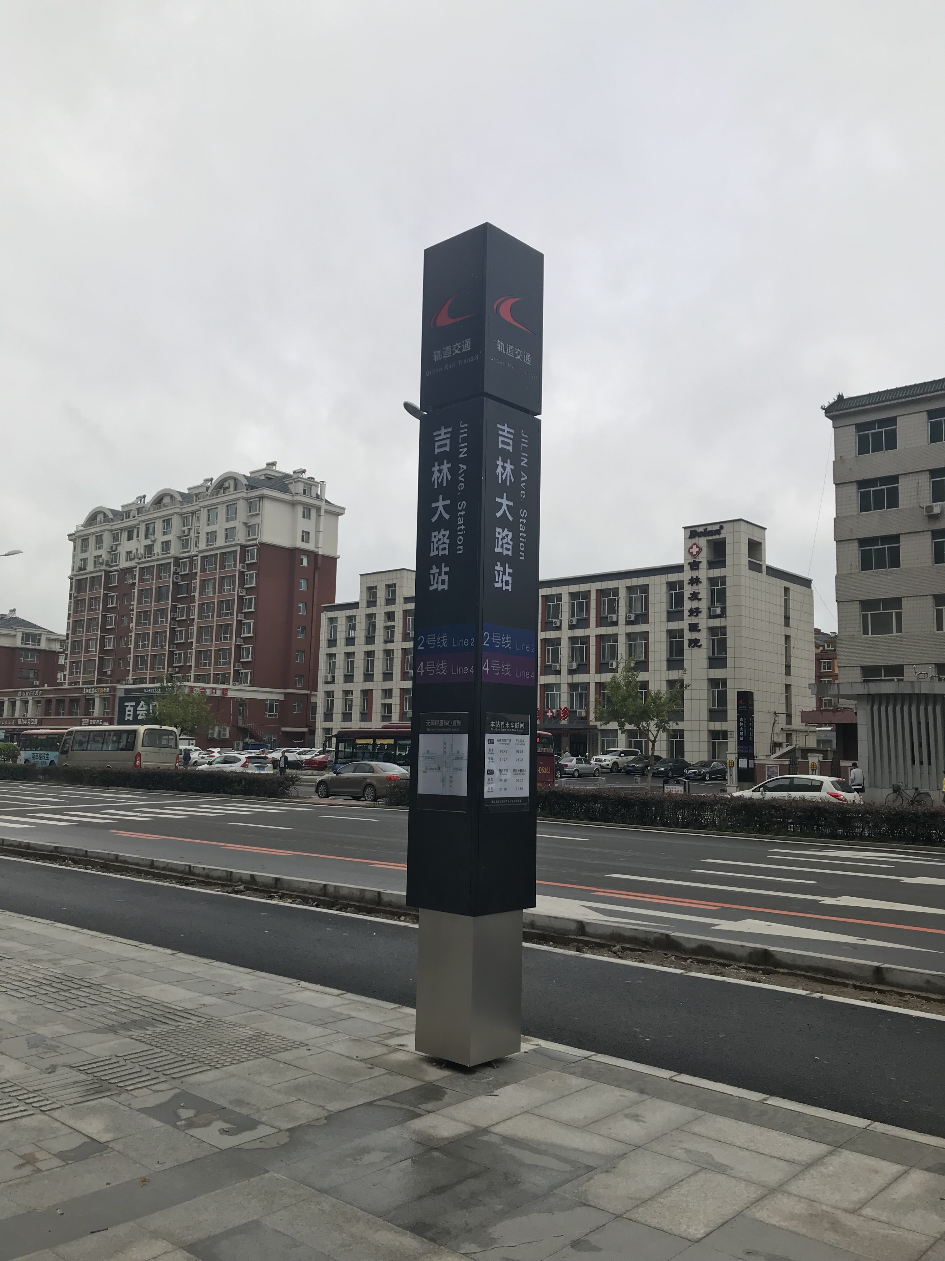 Jilin Avenue Station - Sign